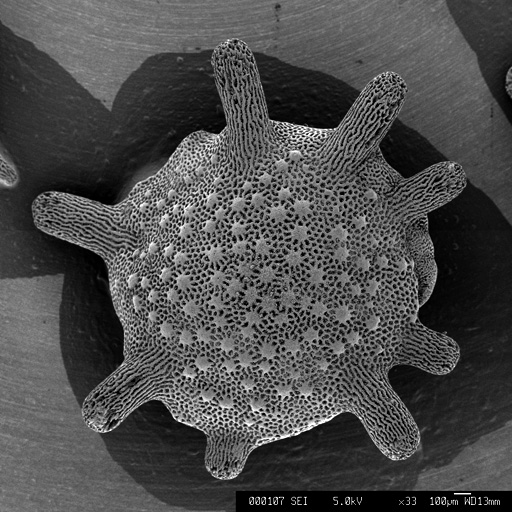 Calcarina sp. / from Iriomote Island, Okinawa Pref., Japan / SEM:JEOL JSM-6330F